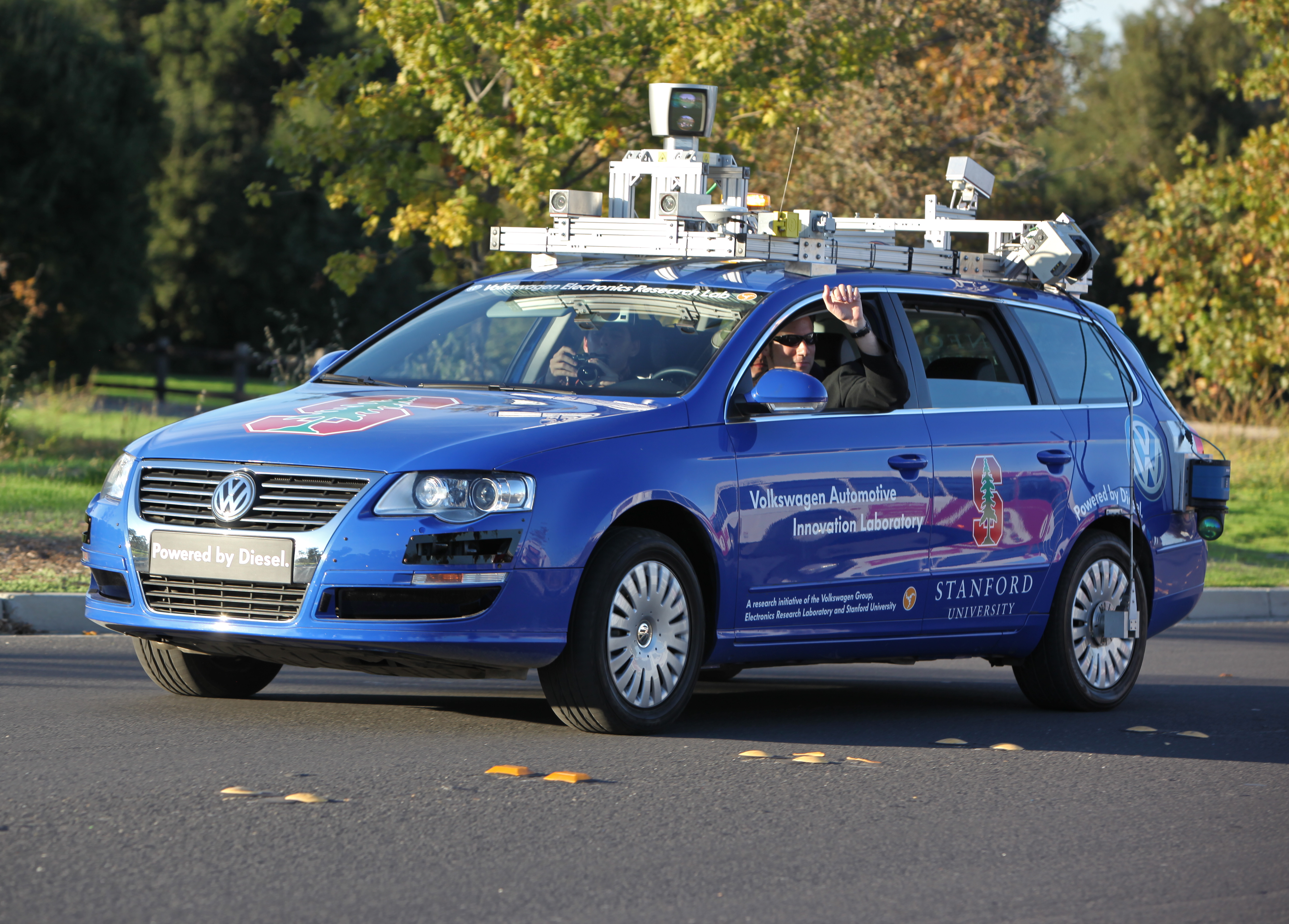 The car drives itself. The passengers are being chauffeured by computer. Seen at the VAIL autonomous driving and parking demonstration at Stanford this weekend. Here’s a short video of this VW parking itself. The roof is festooned with spinning LIDAR and cameras, feeding into the server farm in the trunk. With more processing power, I’m guessing that the expensive laser rangefinders will be less essential as the 2D video cameras alone can render a 3D map of the world, much like our brain. In case you’re wondering, they do have an idea of how to hide all of that equipment, and with Moore’s Law, it will all be soon affordable. Example video with no people in the car. The next generation may wonder why we wasted 80% of the carrying capacity of our highways, why truckers fell asleep, or what all the fuss was about parallel parking.